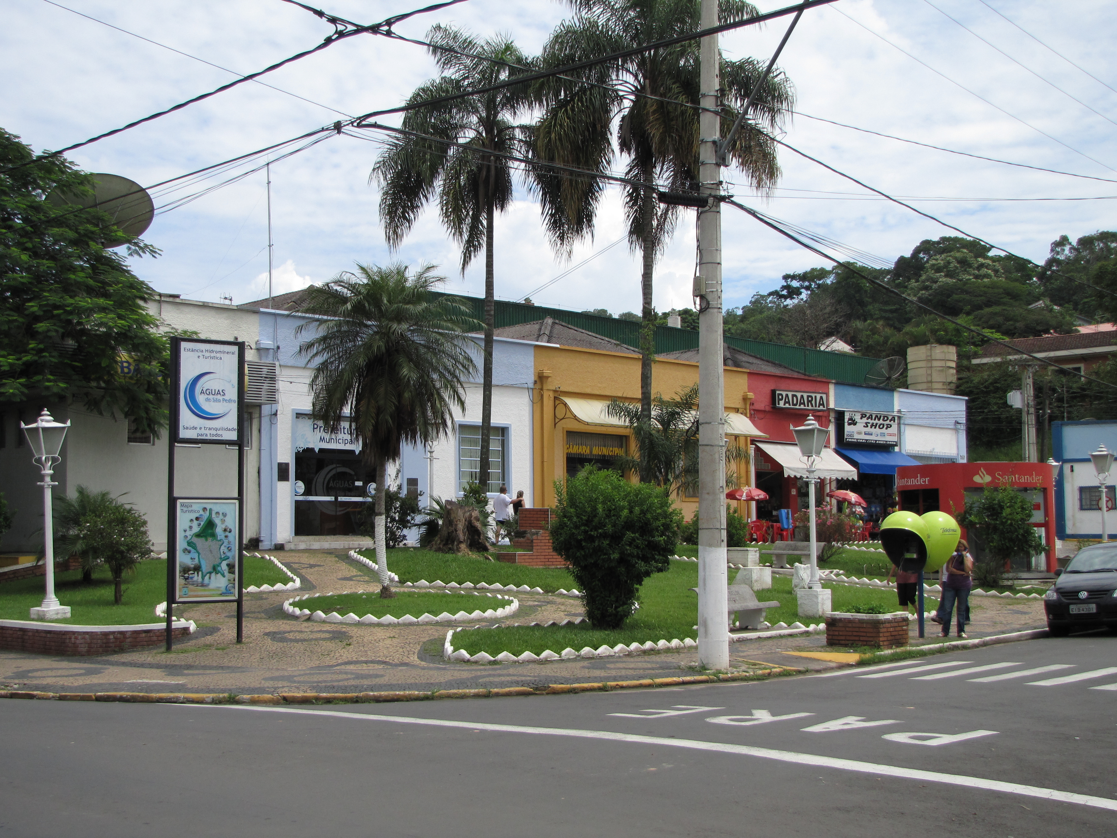 Municipal council (yellow building) and City Hall (white and sky blue building) in Mayor Geraldo Azevedo Square in Águas de São Pedro, Brazil.